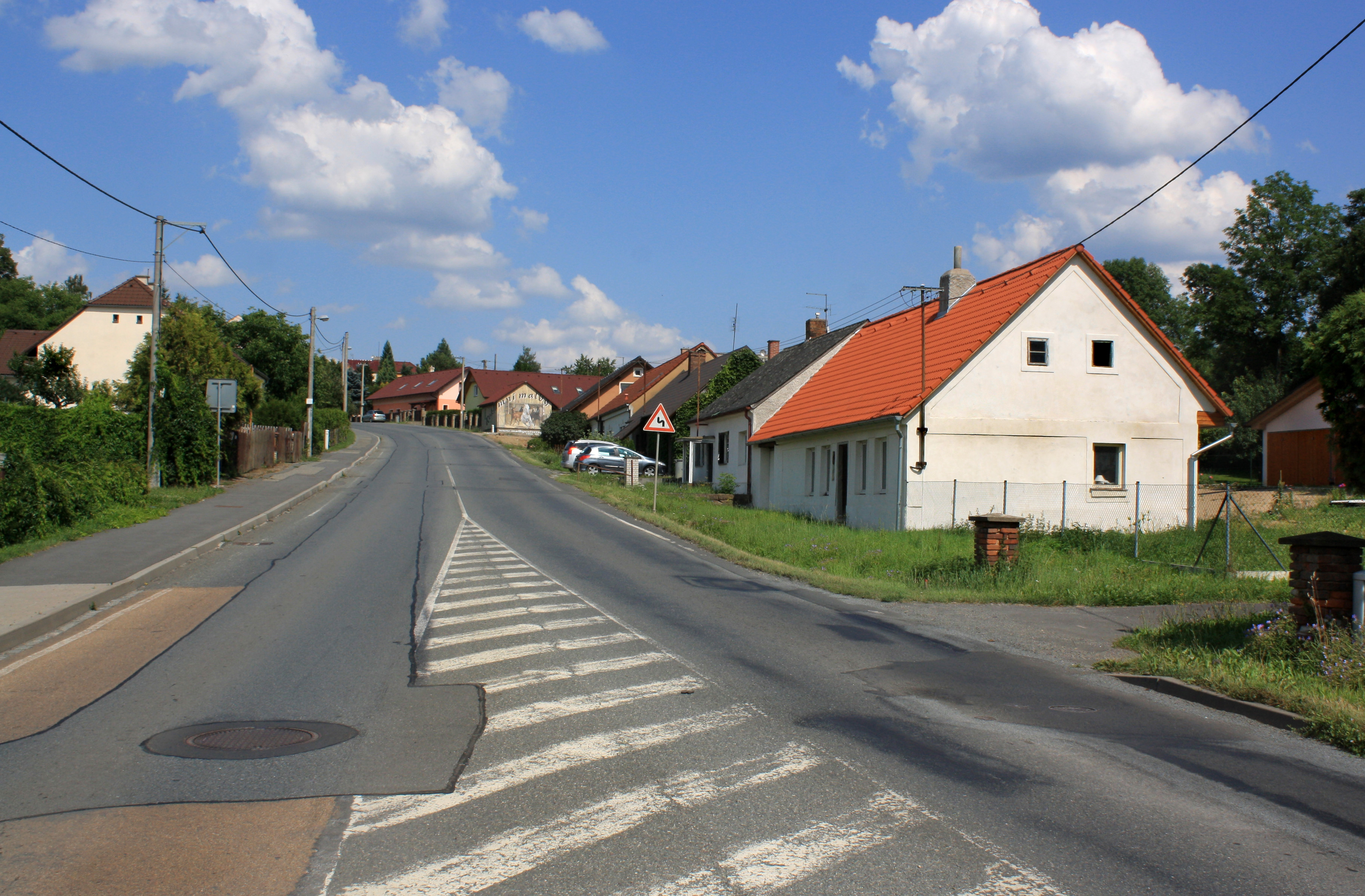 Pražská street in Borek, part of Rokycany, Czech Republic